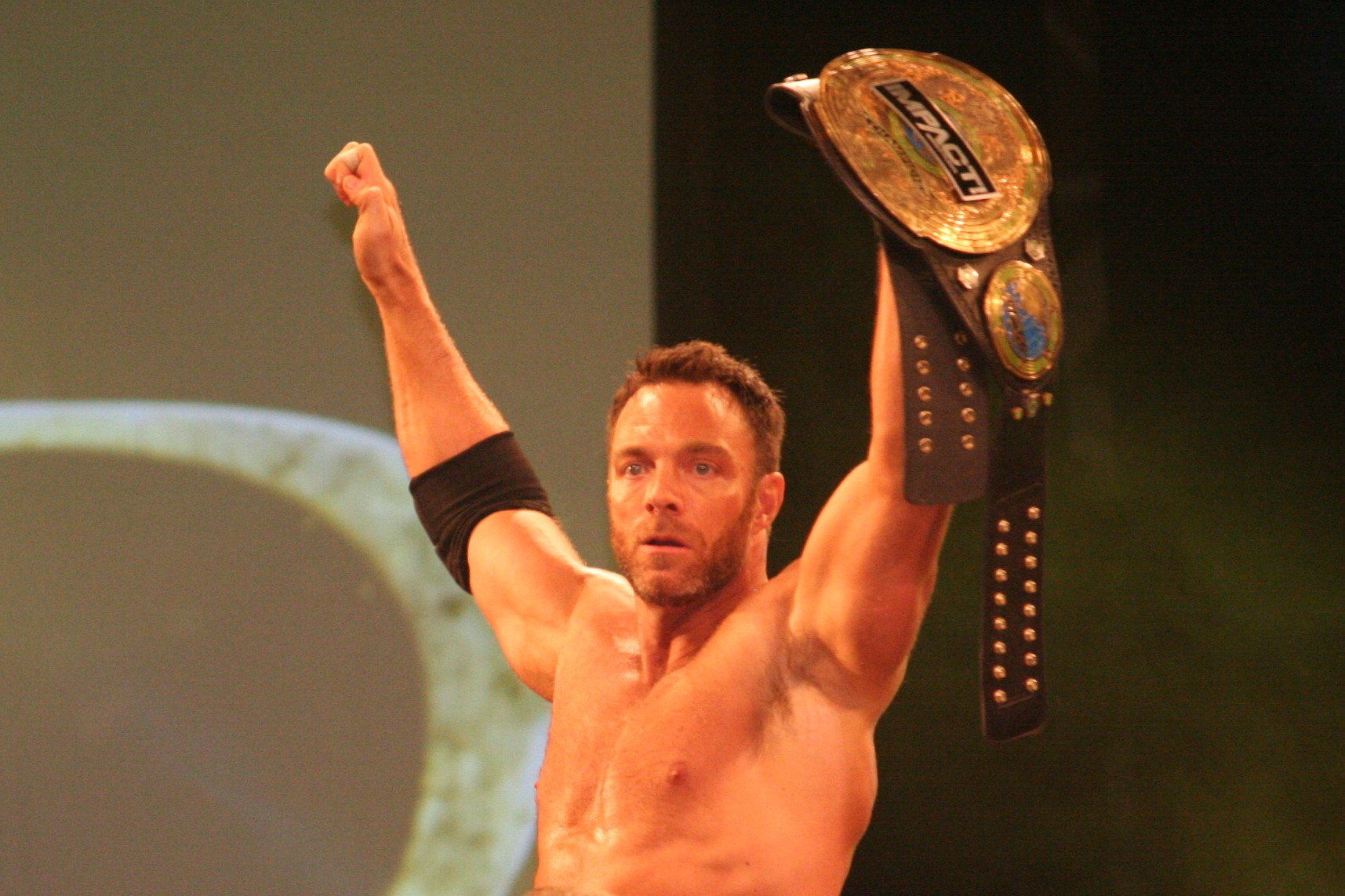 Eli Drake as the Global Champion at Impact Wrestling's Bound for Glory event in November 2017.